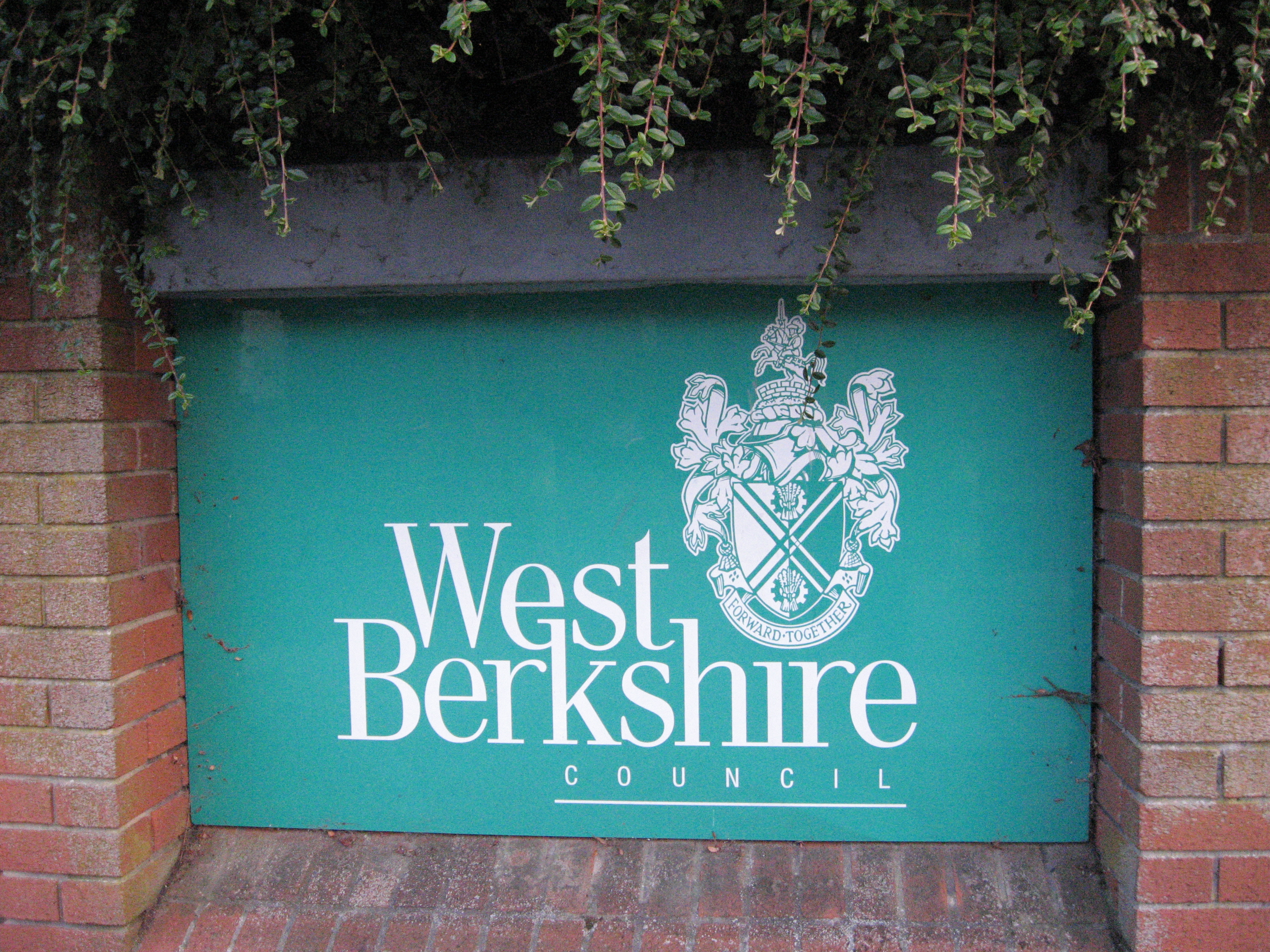 West Berkshire Council logo, featuring the coat-of-arms on its building